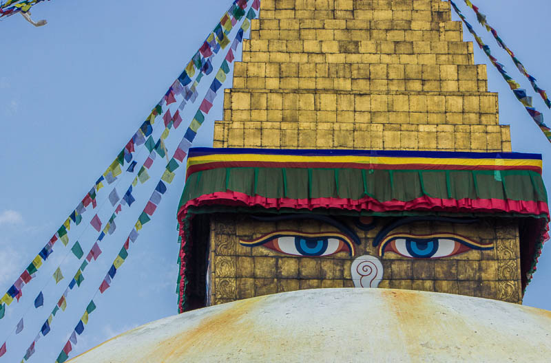 Boudhanath Stupa is a Buddhist Monastery located in Kathmandu, Nepal.